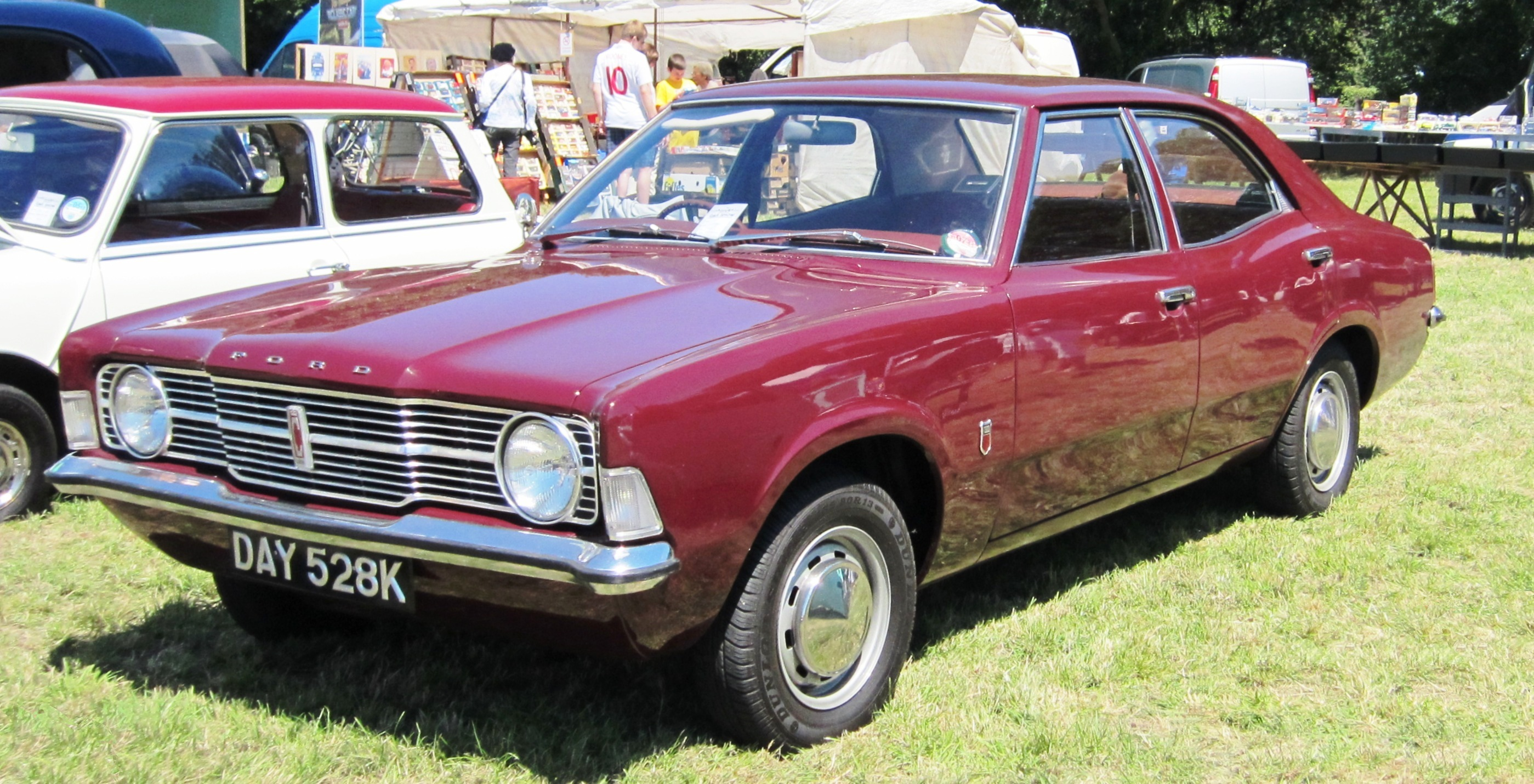 Ford Cortina Mk III 1300